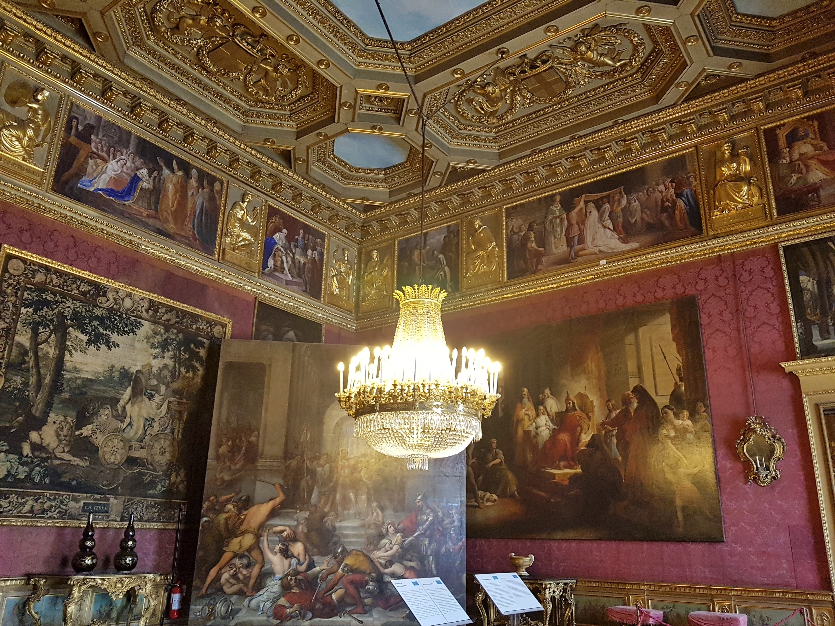 First floor: Hall of the Cuirassiers, Royal Palace of Turin, Northern Italy